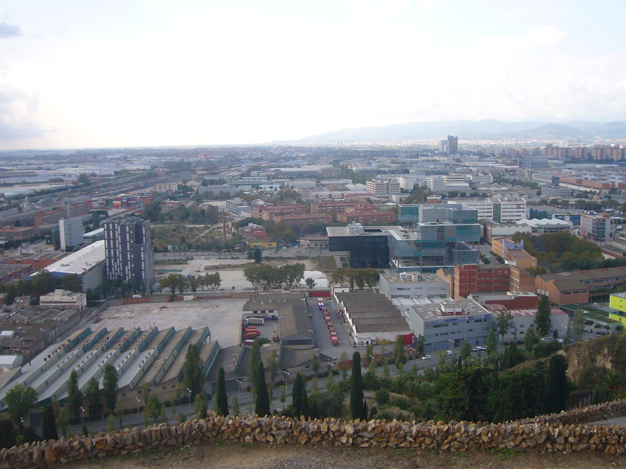 La Marina del Prat Vermell, Barcelona. Seen from the top of Montjuïc cemetery.